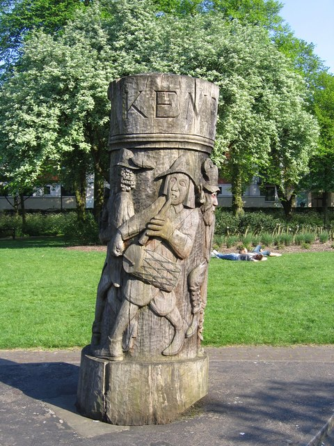 Kemp's Men, Chapelfield Gardens. By local woodcarver Mark Goldsworthy : For more on the story of Will Kemp and his epic Morris Dance (the original 'Nine days wonder')